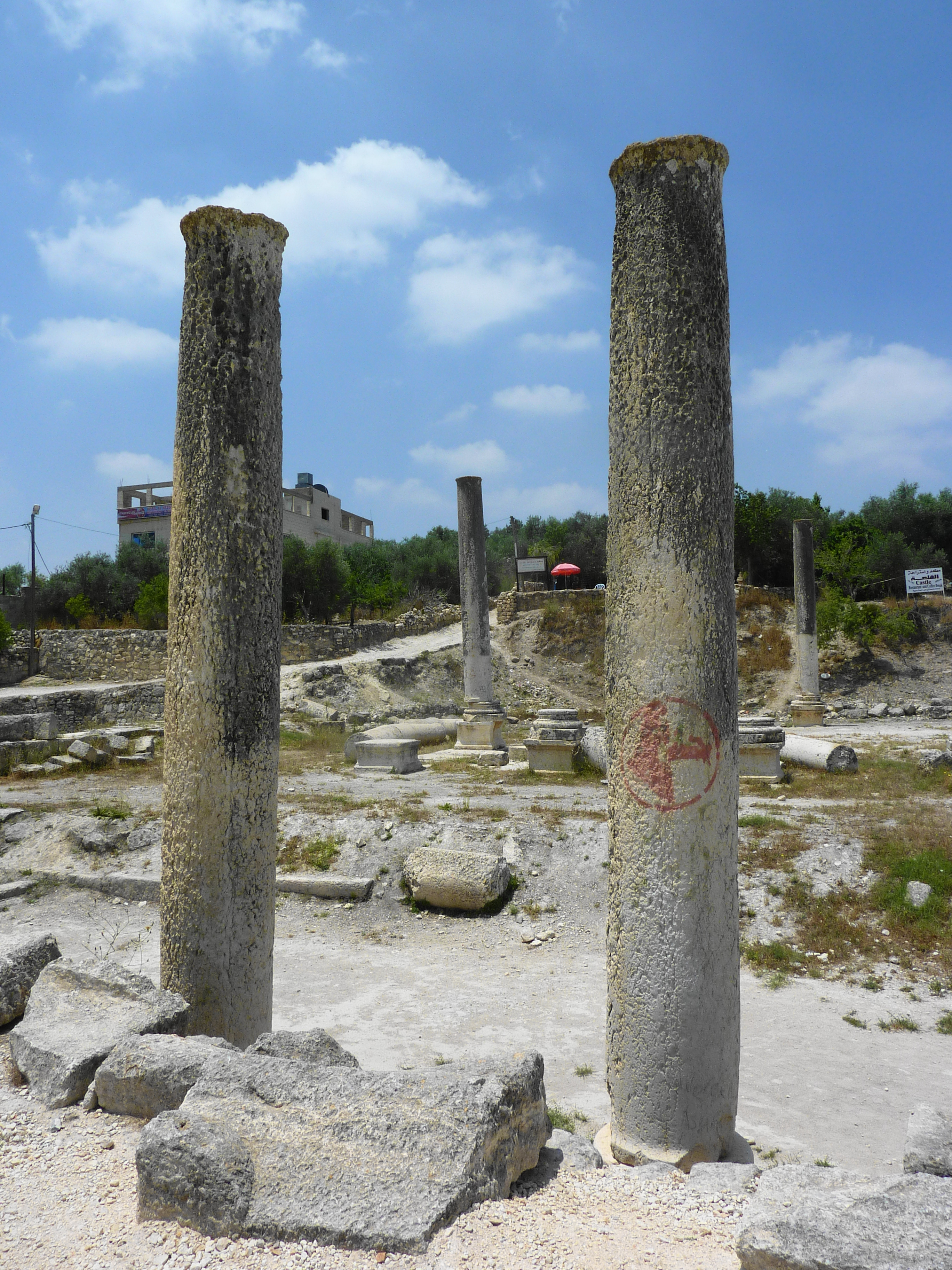 PFLP since AD2